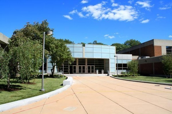 Photo of the entrance to East Greenwich High School